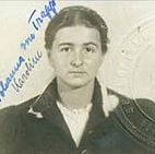 This is a photo of Johanna von Trapp from her naturalization application, found on